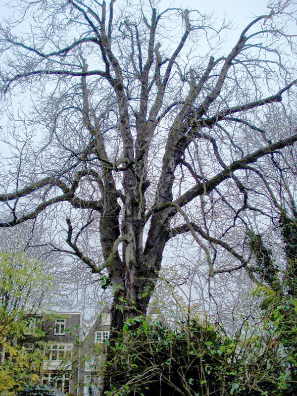 Anne Frank Chestnut Tree. Edited for brightness. Derived from Image:Annefranktree.JPG.